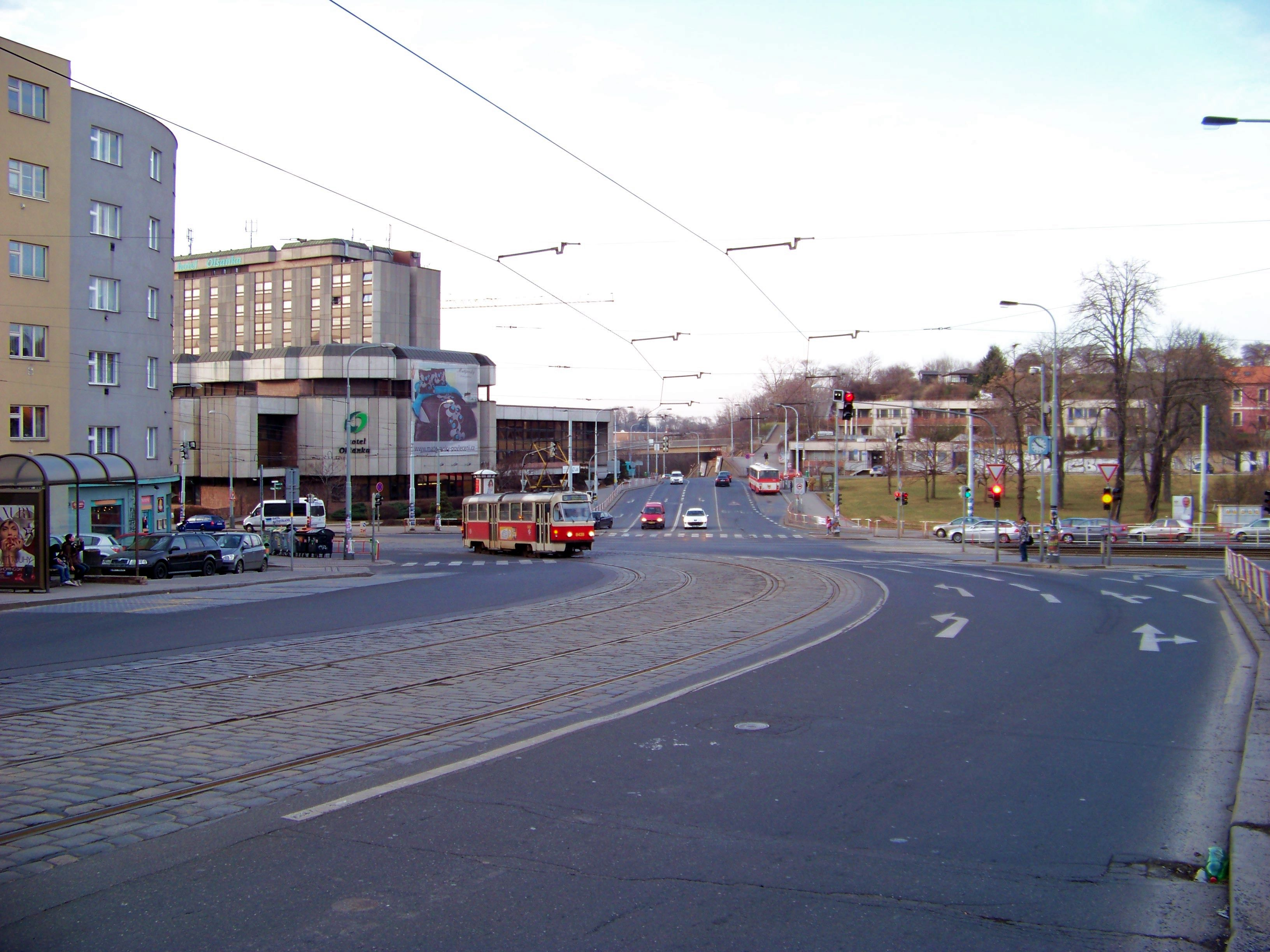 Prague-Žižkov, the Czech Republic. Olšanské náměstí, a view from Jičínská to Prokopova street. - Google Maps - Google Earth